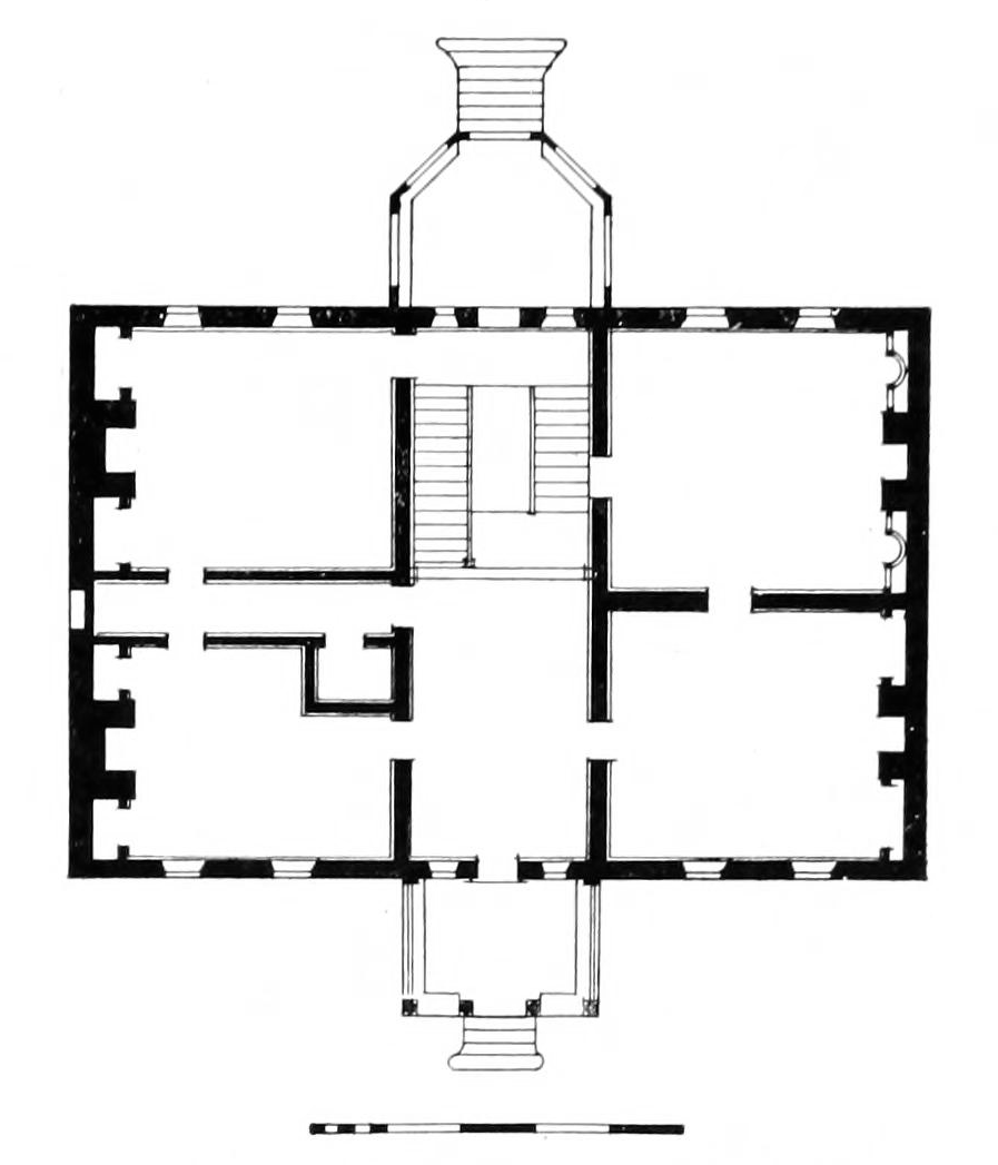 Plan of the Gunston Hall, home George Mason, in Fairfaxe Virginia, prior to its restoration. From Domestic Architecture of the American Colonies and of the Early Republic by Fiske Kimball, available at the Internet Archive. (Image cropped and cleaned)